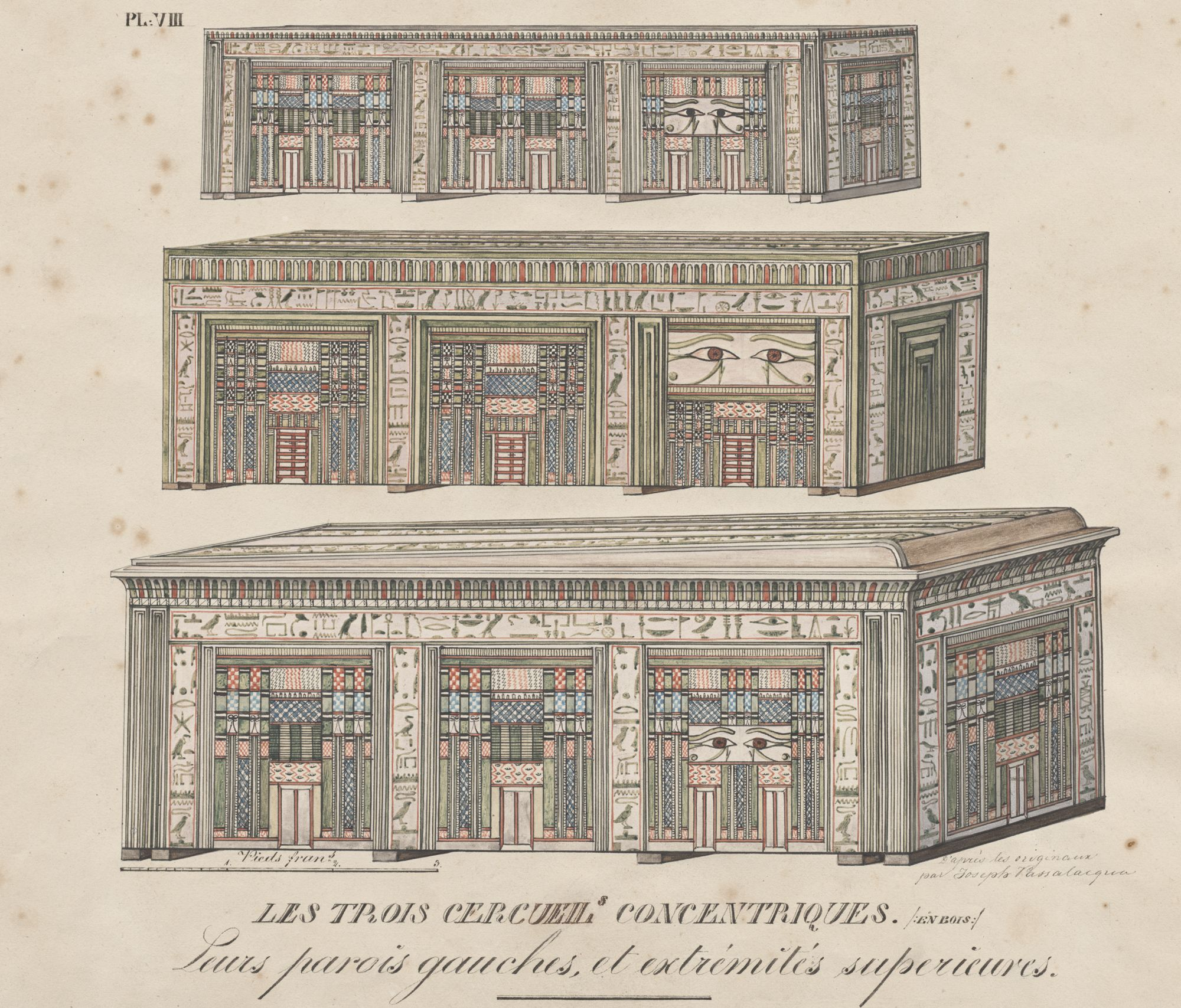 the three coffins in the grave of Mentuhotep, original coloured drawing by Giuseppe Passalacqua